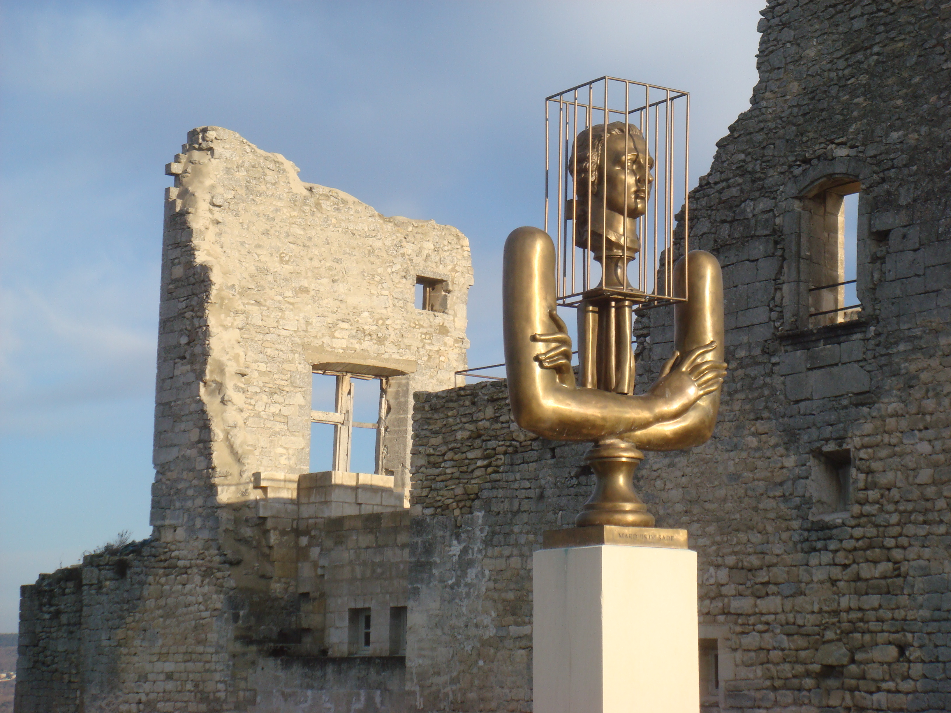 Monument to the Marquis de Sade in front of the castle of Lacoste (Vaucluse).